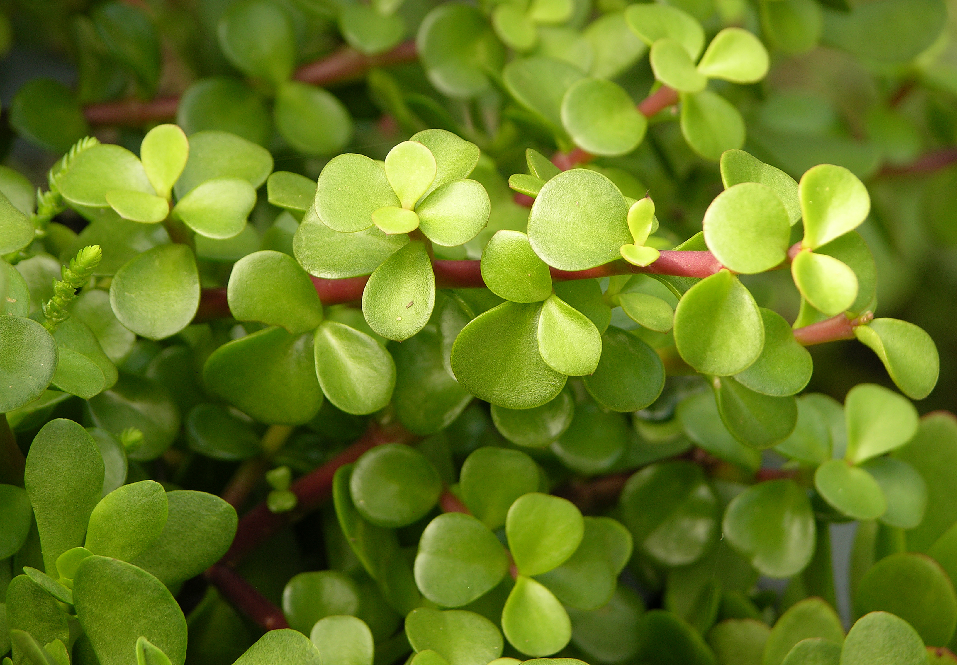 A picture the Portulacaria afra en 'Red Stem' plant. Photo taken at the Chanticleer Garden where it was identified.